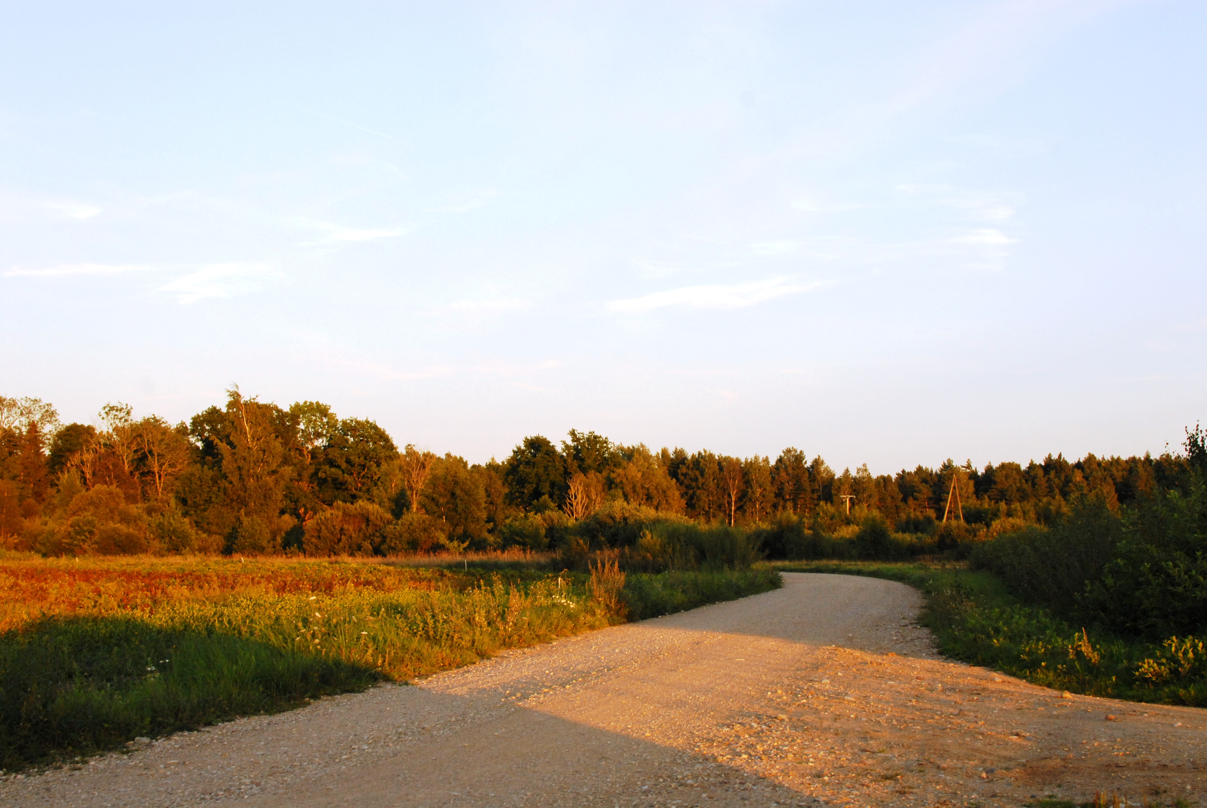 Rucava Municipality